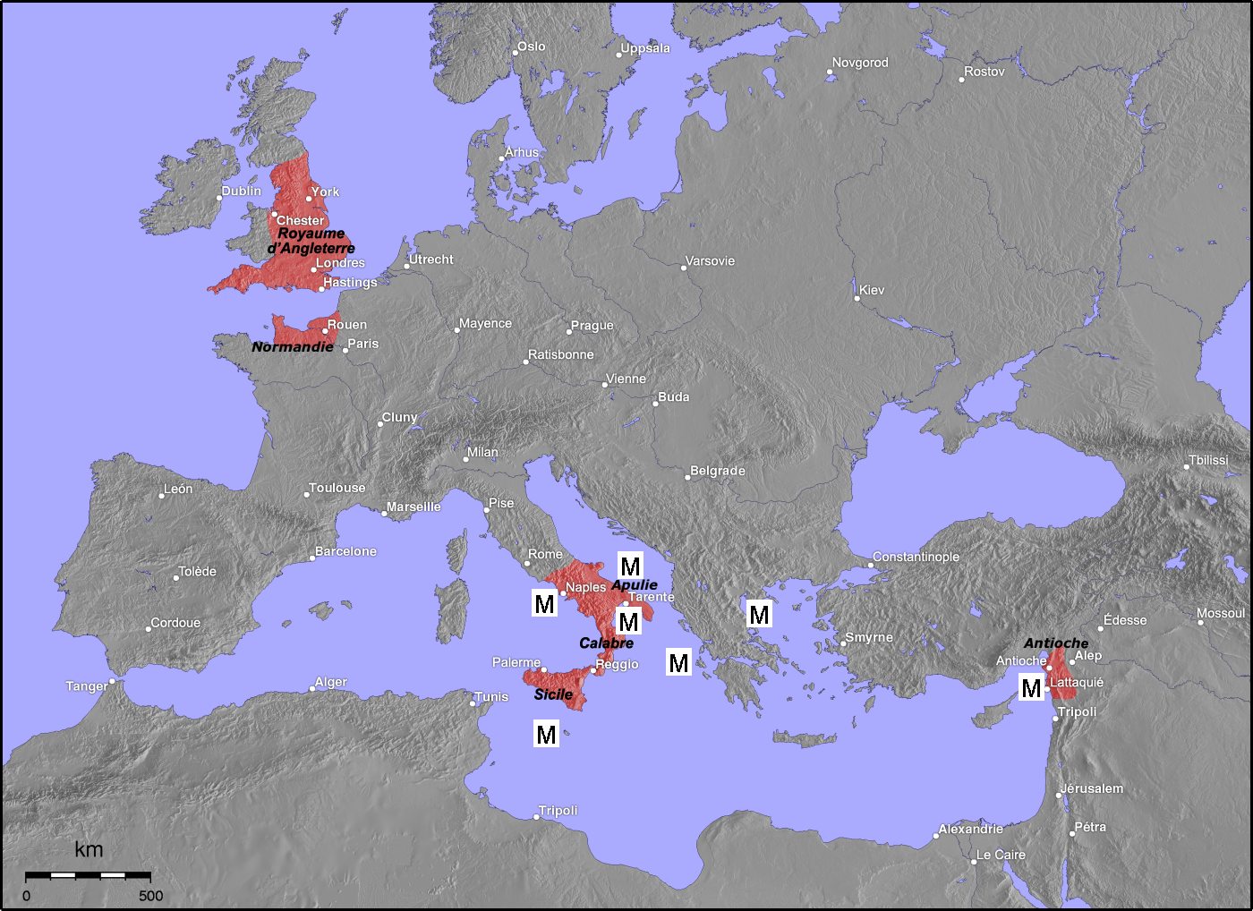 Places of action of Margaritus of Brindisi